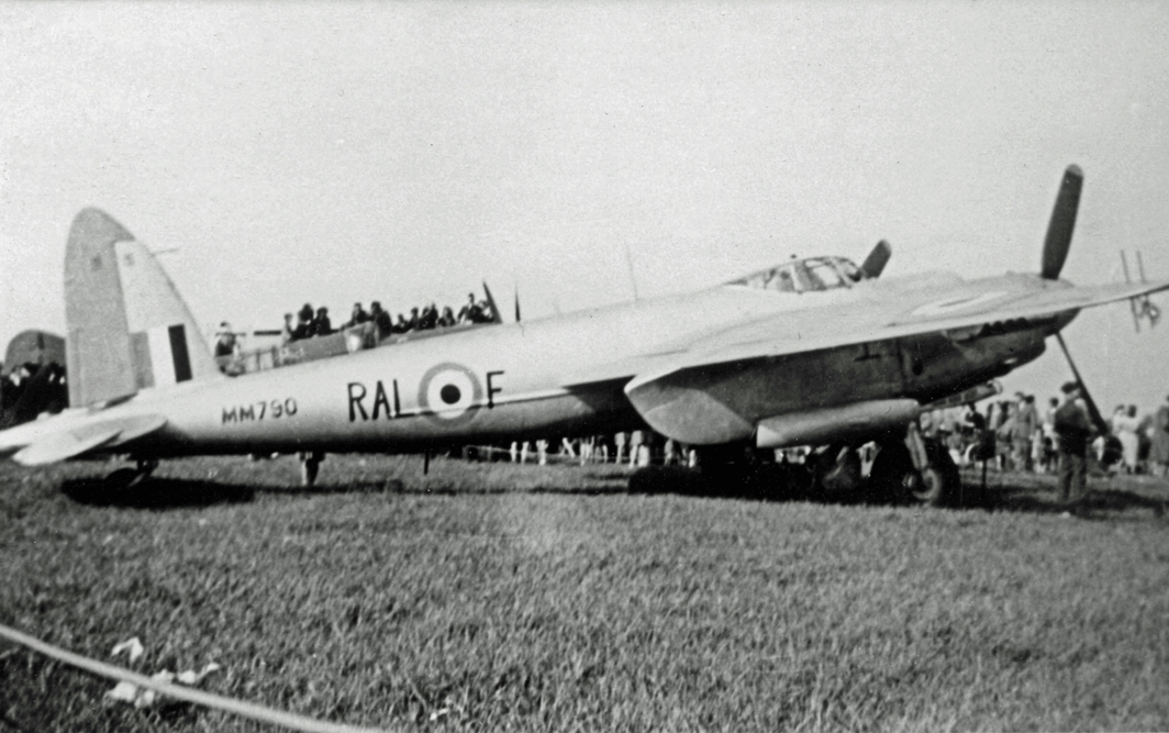 De Havilland Mosquito NF.30 MM790 RAL-F of 605 (County of Warwick) Squadron Royal Auxiliary Air Force at Manchester (Ringway) Airport